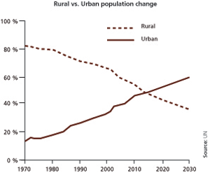 pop urbane